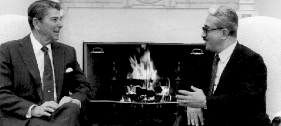 Ronald Reagan and Iraqi Foreign Minister Tariq Aziz meet at the White House on November 26, 1984, as the U.S. and Iraq restore diplomatic relations.